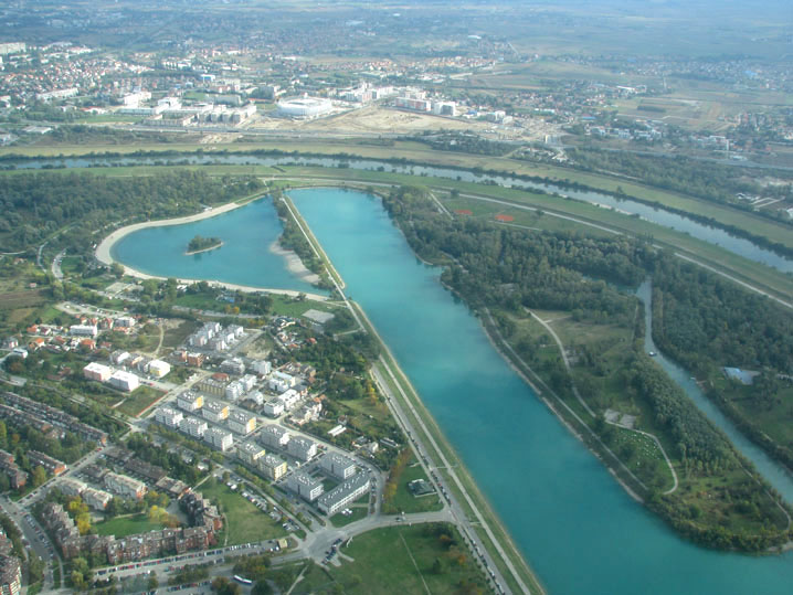 Jarun Lake, Zagreb, from the air